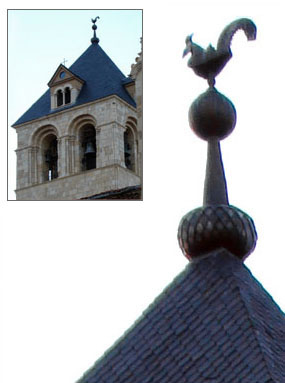 Weathercock of romanesque tower of the basilica of San Isidoro de León (León, Spain) This weathercock kept in the museum of the cloister as a treasure.